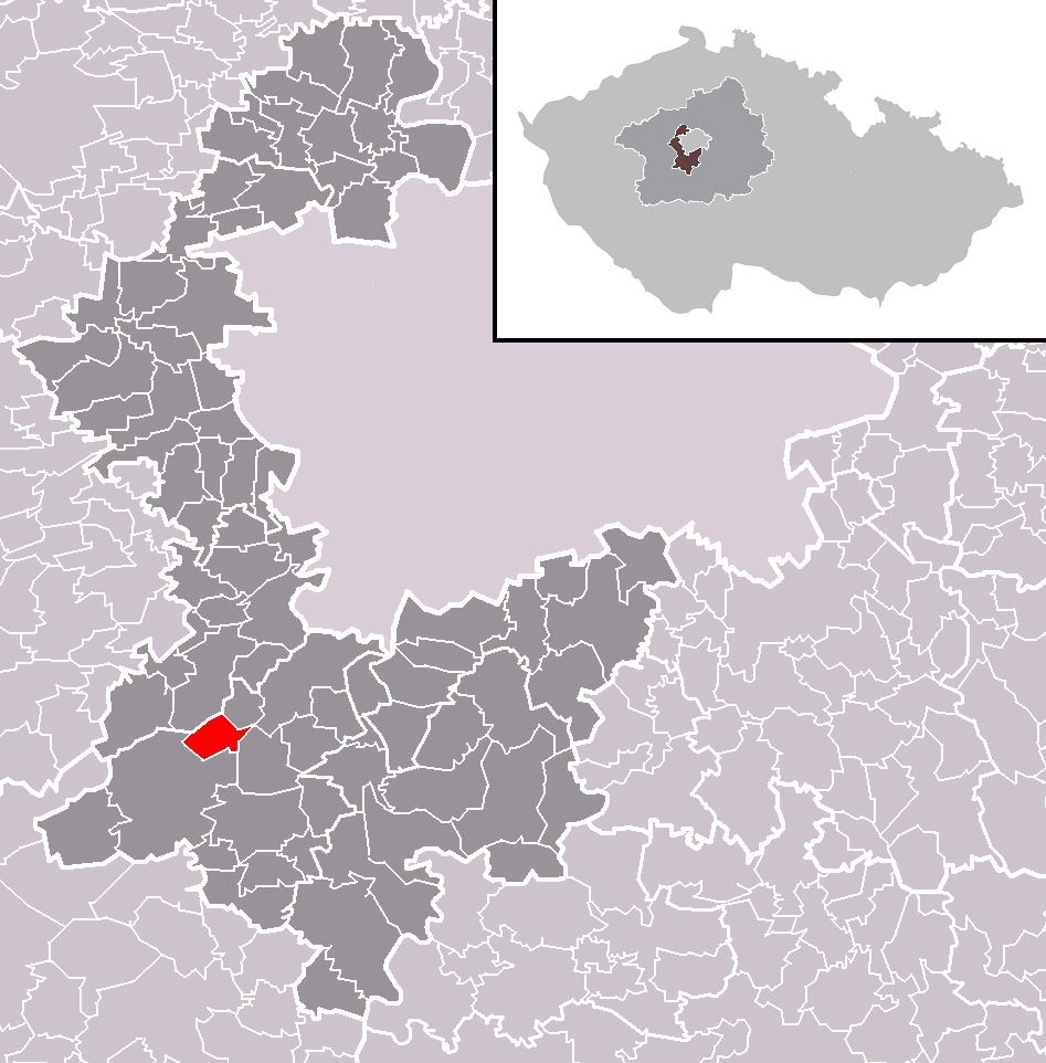 Location of Řitka municipality within Prague-West District and administrative area of Černošice as a Municipality with Extended Competence.